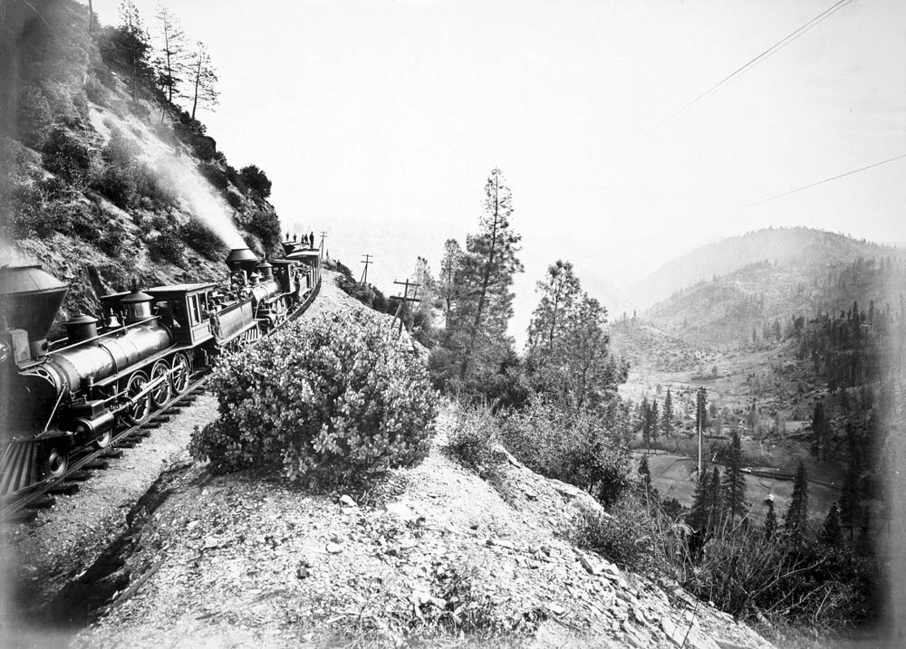 Central Pacific Rail road train rounding Cape Horn, Placer County, California.